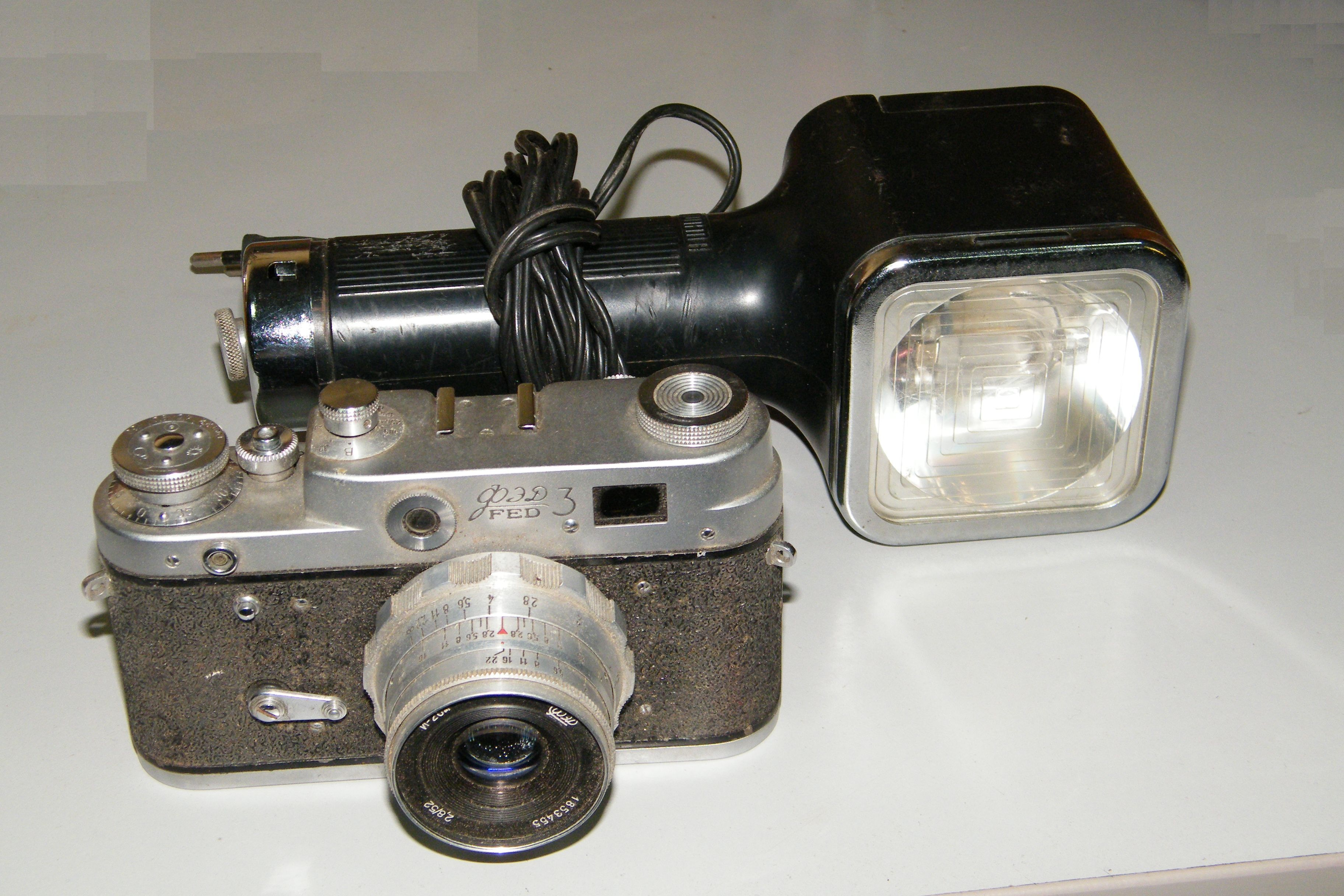 Electronic flashes